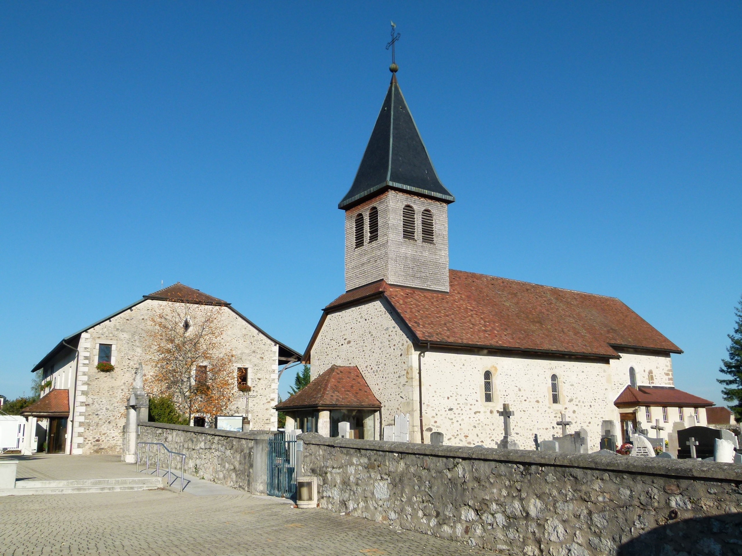 Town Hall and church of Prevessin-Moëns